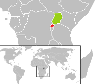 Locator map for Rwanda and Uganda.